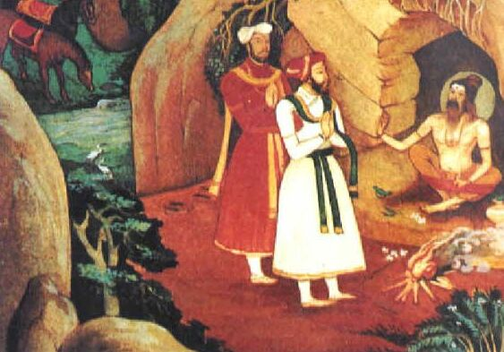 Harihara and Bukka were two Kannada Hoysala Dynasty Army Chiefs. After the Kakatiyas were defeated by Muslim sultans, Harihara and Bukka were forced to convert to Islam. Vidyaranya identified them, reconverted them back and asked them to identify a place to establish a Hindu empire.